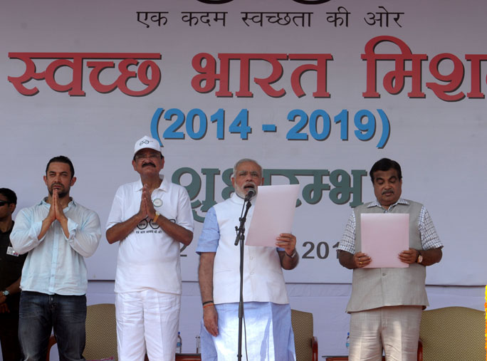 PM launches Swachh Bharat Abhiyaan